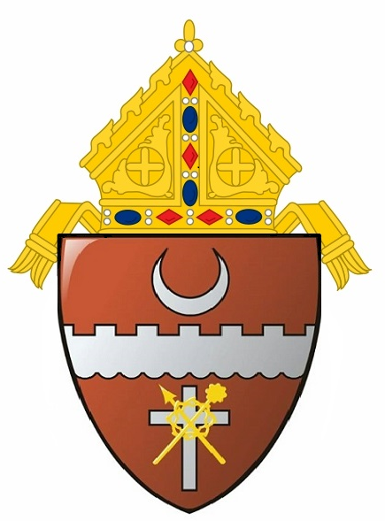 Coat of Arms Diocese of Brownsville, TX